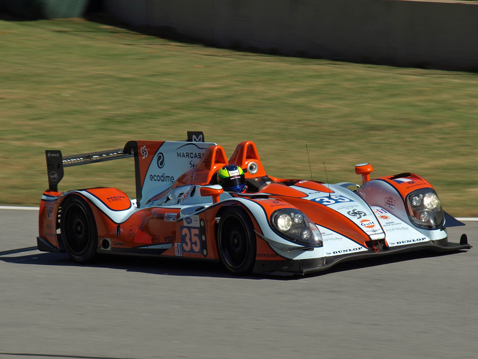 Olivier Pla in the OAK Racing Morgan LMP2-Nissan during qualifying for the 2012 Petit Le Mans